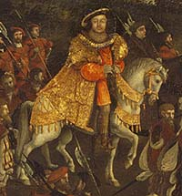 «Field of the cloth of gold». Fragment of engraving